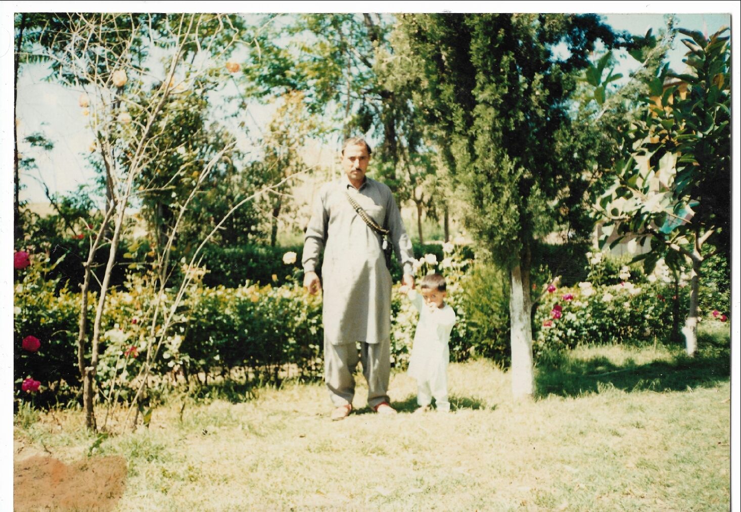 File photo of Haji Musa Khan with his grand son Imran Khan